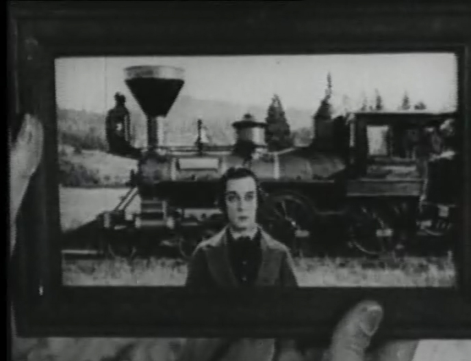 Scene from the movie The General. 1926.